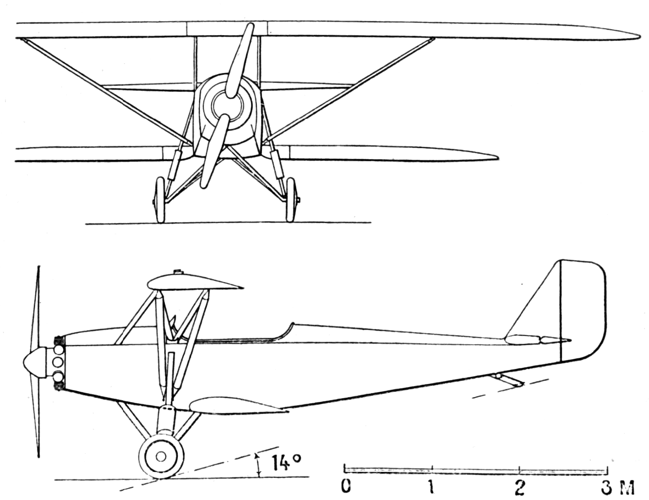 Ikarus L-1 2-view drawing from L'Aéronautique August,1929